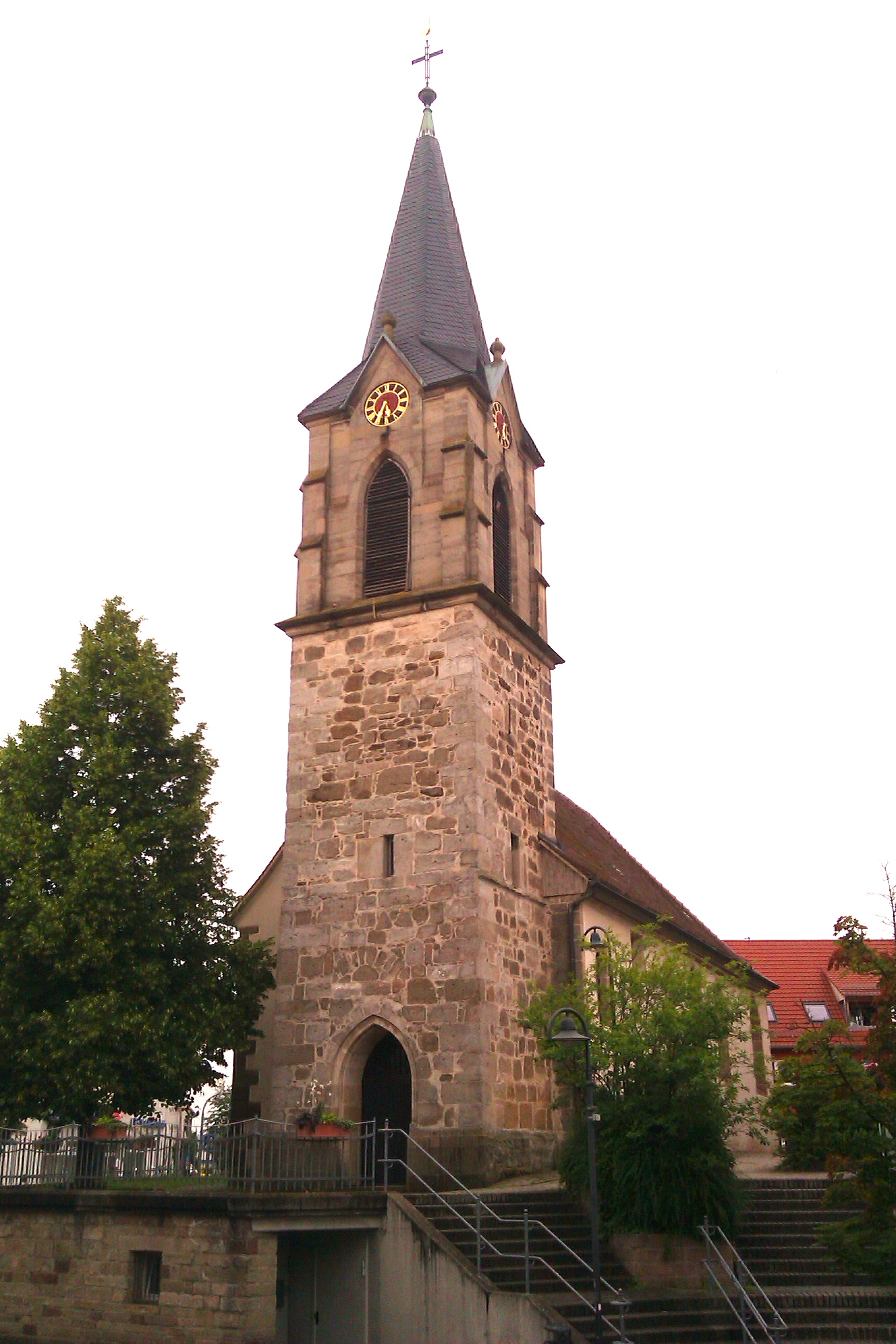 Protestant church of Weiler, Schorndorf, view from SW